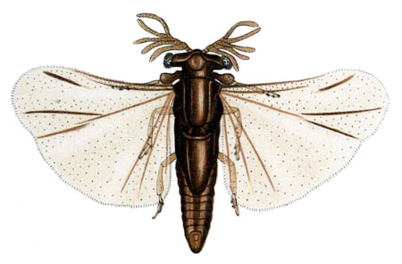 Halictophagus barberi (Halictophagus)